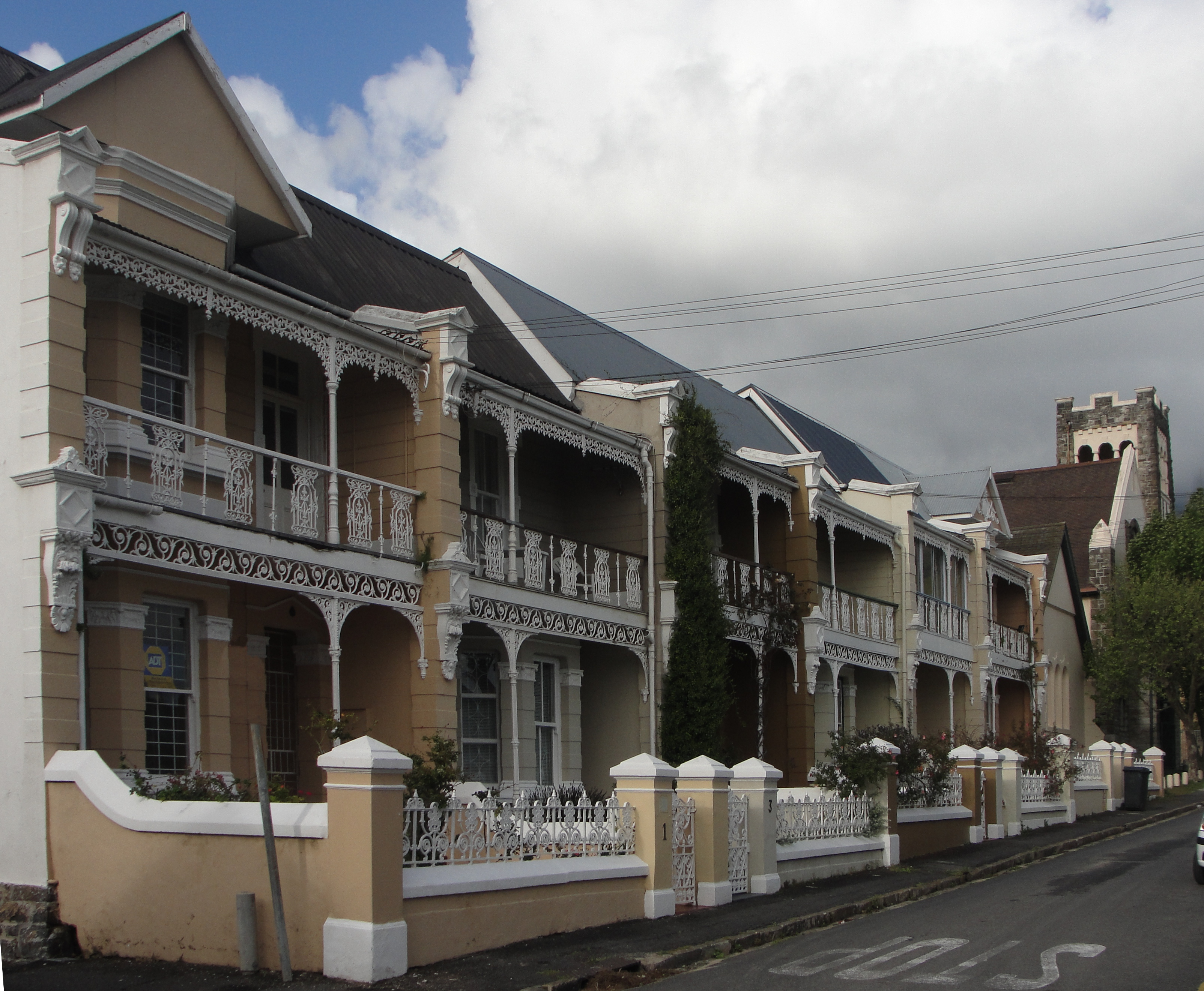 Albert Road, Mowbray (numbers 1, 3, 5, 7, 9, 11) This media shows a South African Protected Site with SAHRA file reference 9/2/018/0273/001. This media shows a South African Protected Site with SAHRA file reference 9/2/018/0273/002. This media shows a South African Protected Site with SAHRA file reference 9/2/018/0273/003. This media shows a South African Protected Site with SAHRA file reference 9/2/018/0273/004. This media shows a South African Protected Site with SAHRA file reference 9/2/018/0273/005. This media shows a South African Protected Site with SAHRA file reference 9/2/018/0273/006.